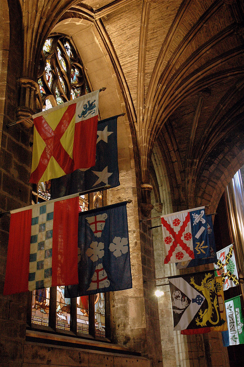 Banners of Knights of the Thistle